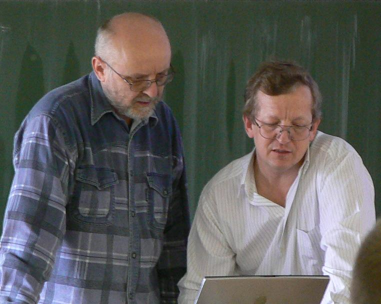 Doc. RNDr. Jiří Tůma, DrSc. and RNDr. Vlastimil Klíma lecture on hash functions (Faculty of Mathematics and Physics of Charles University in Prague)